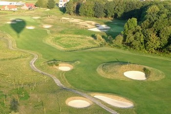 Aerial view - tee n°6 & 7 - Merignies Golf